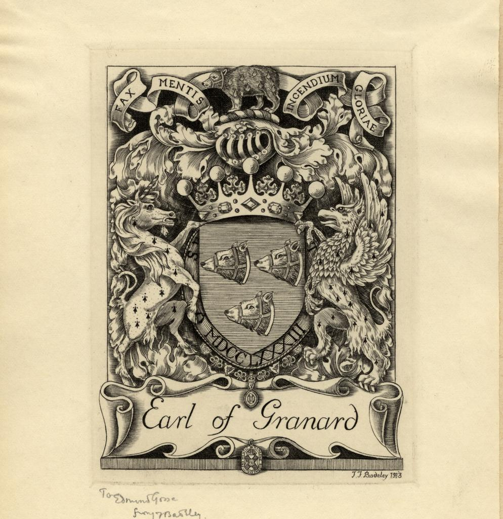 Armorial/Heraldic Bookplates. Subject: Coat of arms; Shields; Armor; Crowns; Animals. Subject - Family Name: Granard.